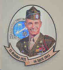 This is drawing of Bull Benini, the first Combat Controller, when he was still a U.S. Army Pathfinder